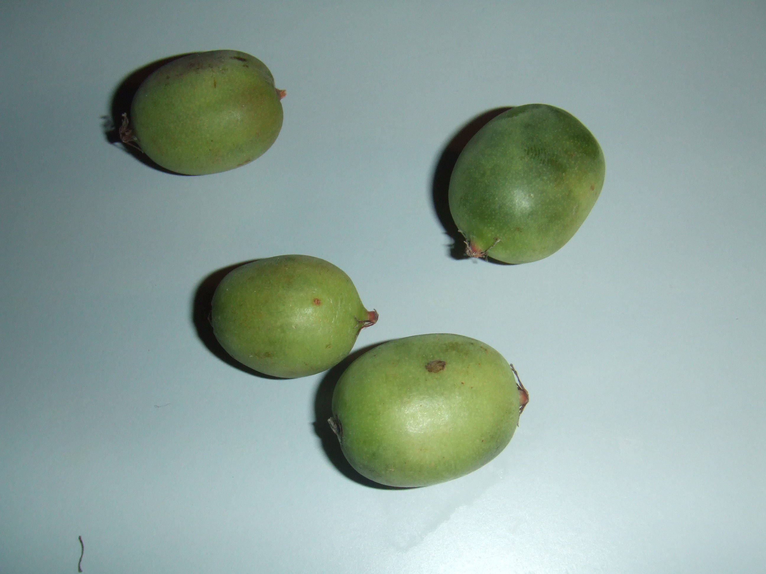 Actinidia arguta from Chile, bought at the Binnenrotte market in Rotterdam, the Netherlands